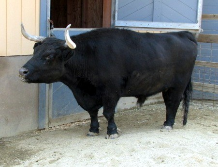 A Dexter steer at the San Francisco Zoo